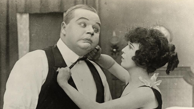 Still from the American film He Did and He Didn't (1916).